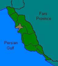 Map of Bushehr County in Bushehr Province of Iran.